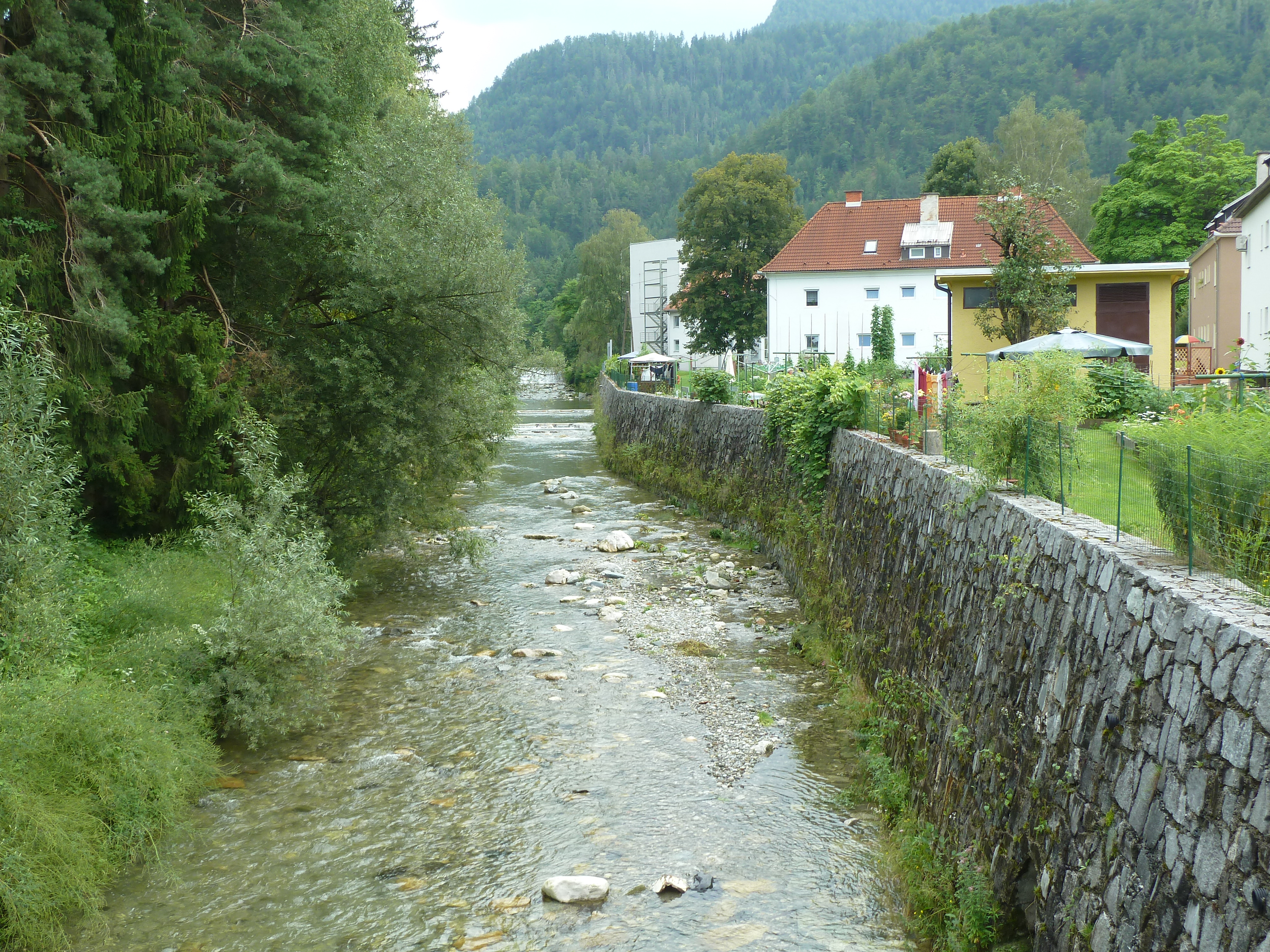 Meža River in the town of Mežica